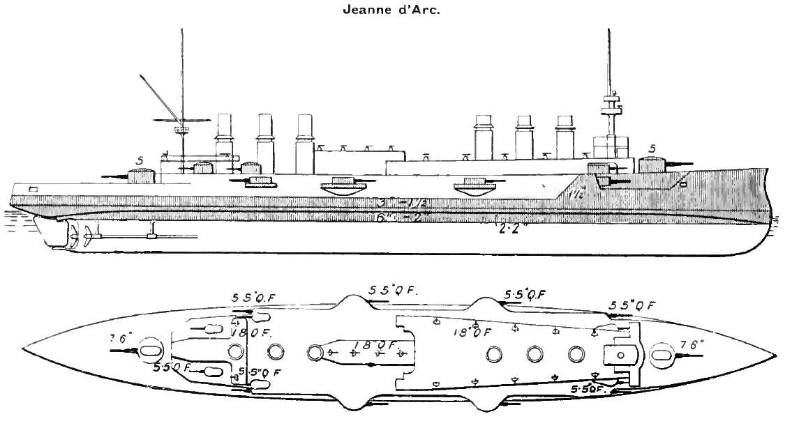 The French armoured cruiser Jeanne d'Arc (note: the scheme is incorrect, regarding upper superstructures and position of the 2nd 138.6 mm (5.5 in) gun on upper deck - it should be in a middle of ship's length).